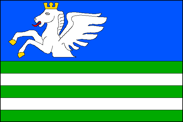 Municipal flag of Milotice village, Hodonín District, Czech Republic.